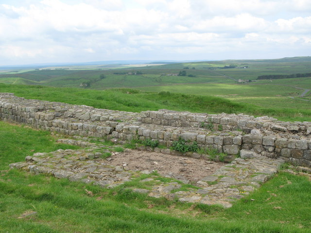 Turret 41a (2) The minor road through Caw Gap can be seen winding its way northwards.